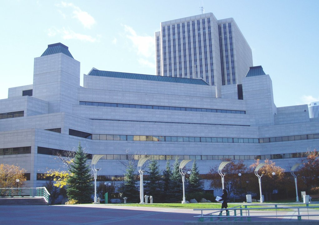 The Ottawa Courthouse, taken by SimonP